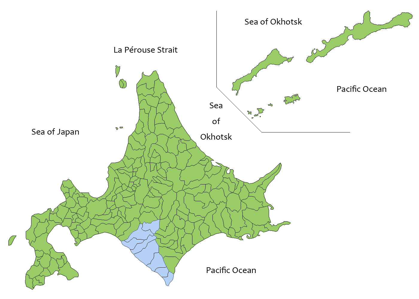 Map of Hidaka subprefecture in English